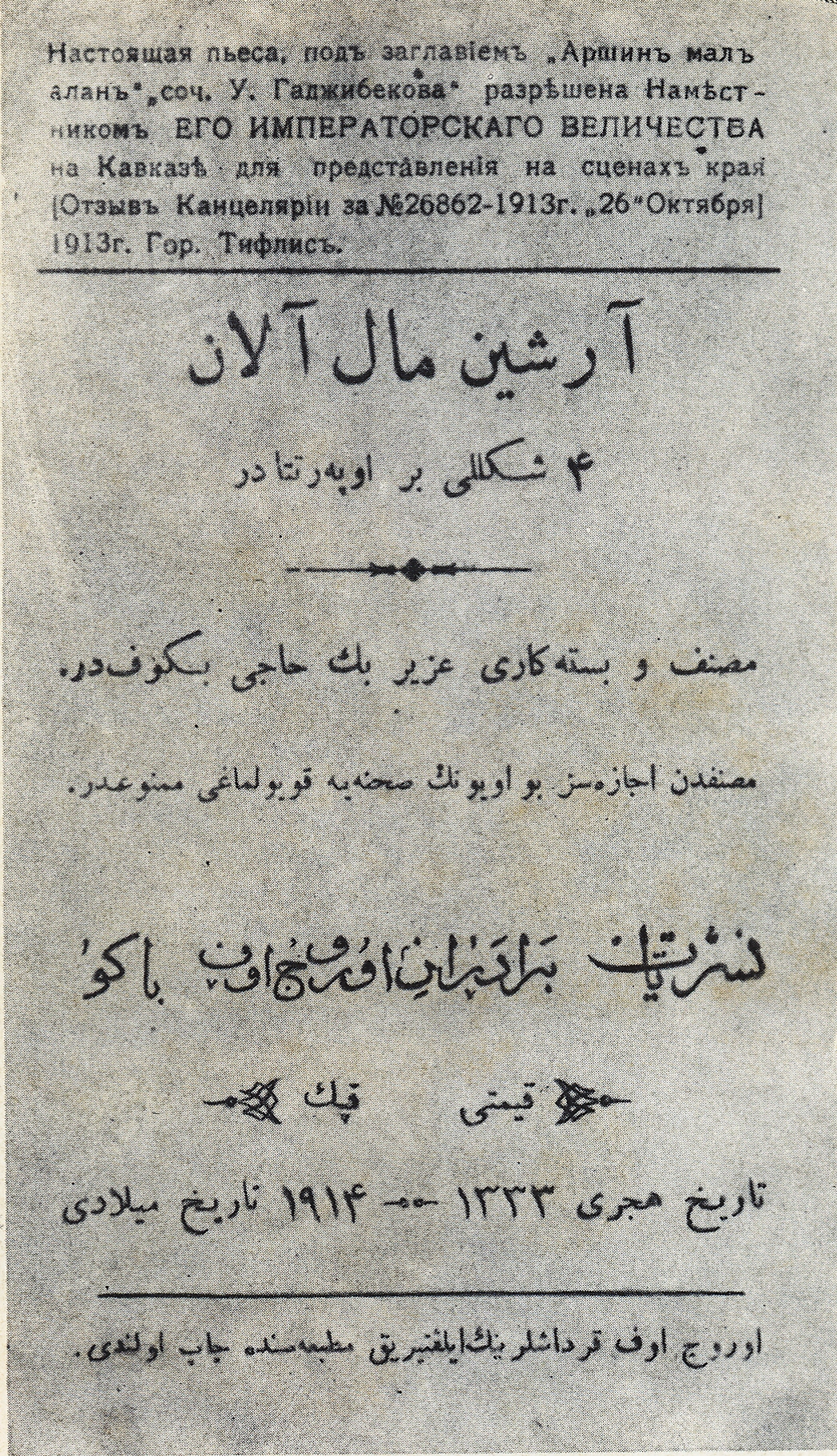 Page from libretto of "Arshin mal alan" operette